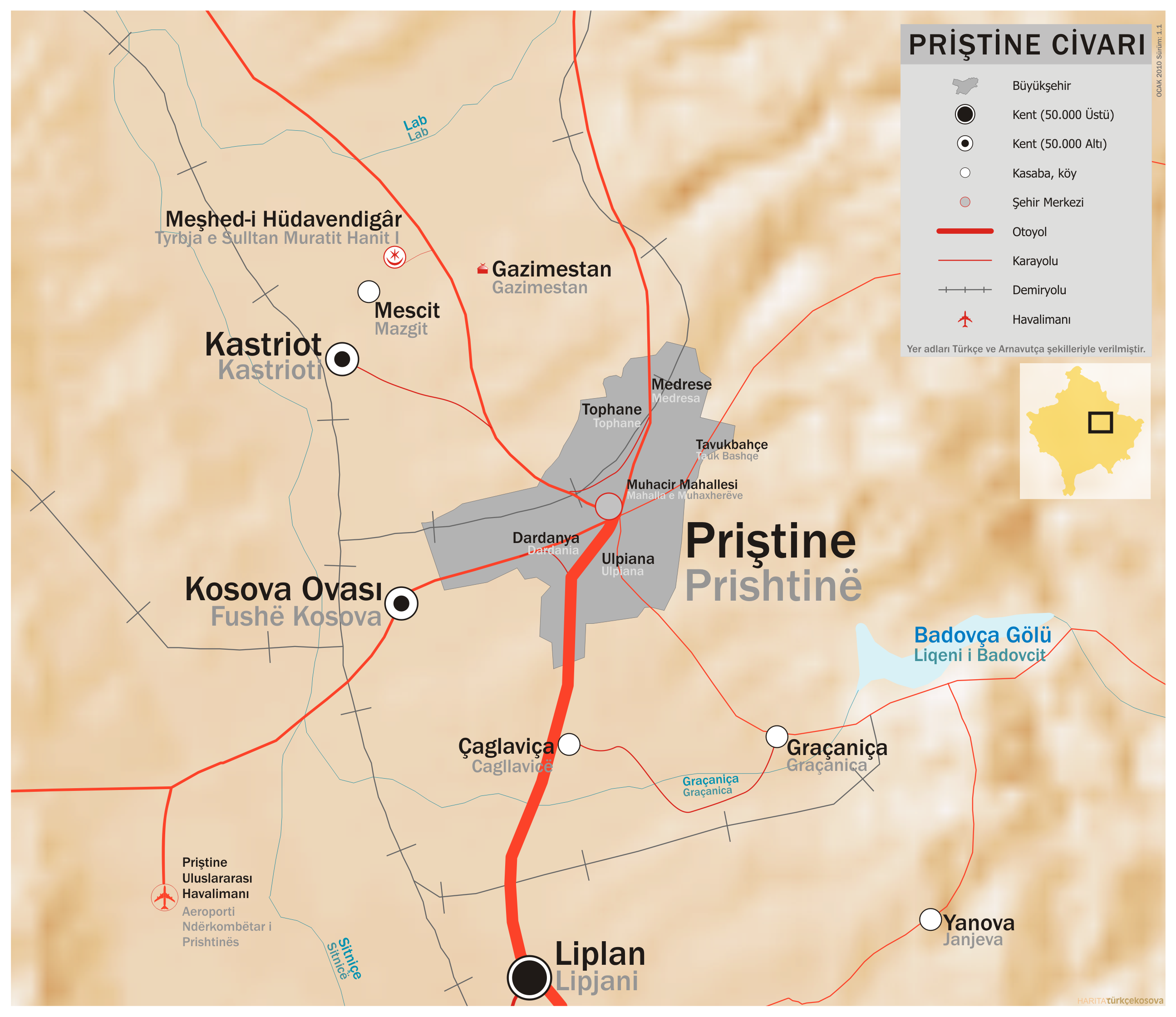 Pristina, the capital city of Kosova and surroundings map. Settlements names are Turkish and Albanian forms.